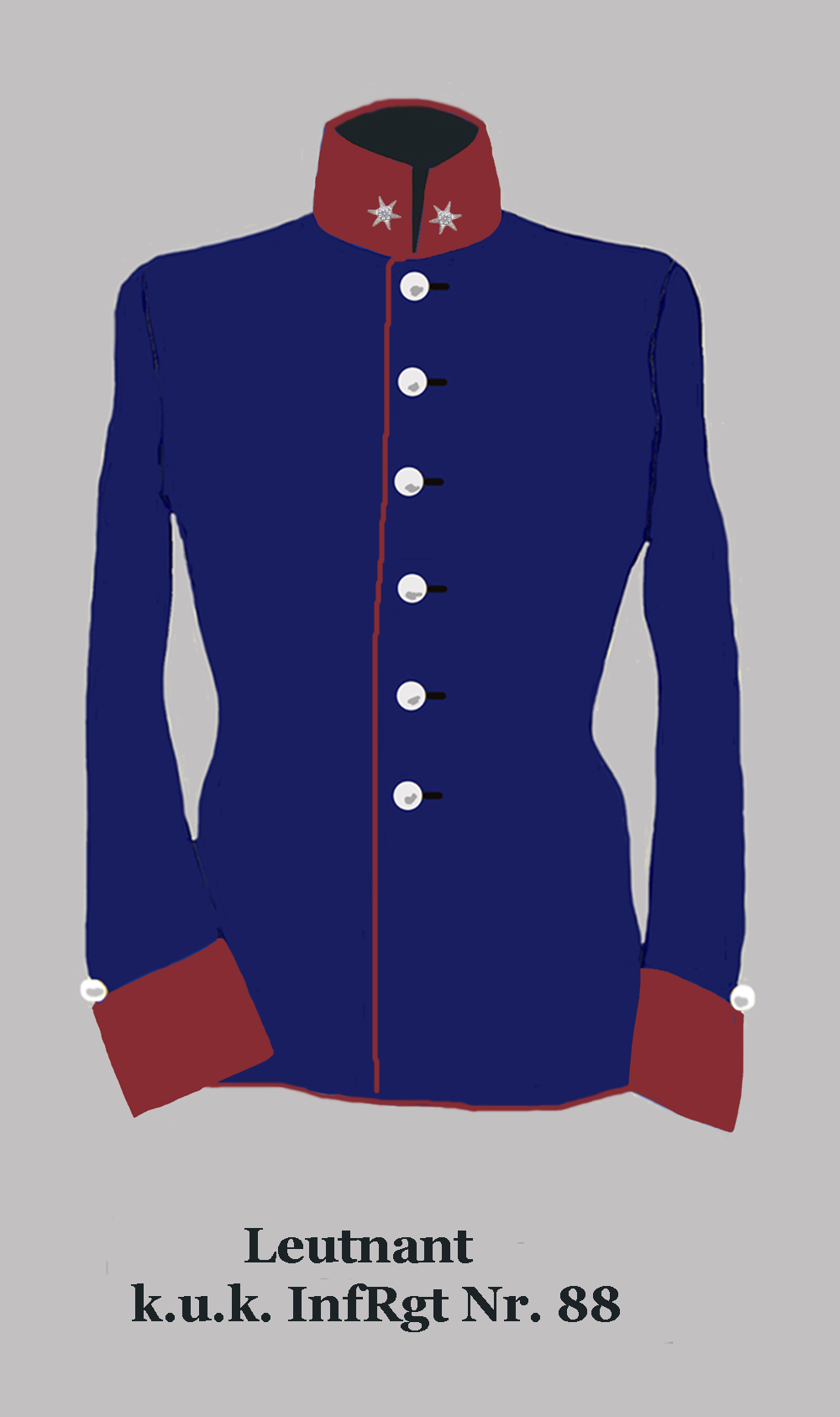 Lieutenant in the k.u.k. german 88th Infantry Regiment (Collar wine-red, buttons white)